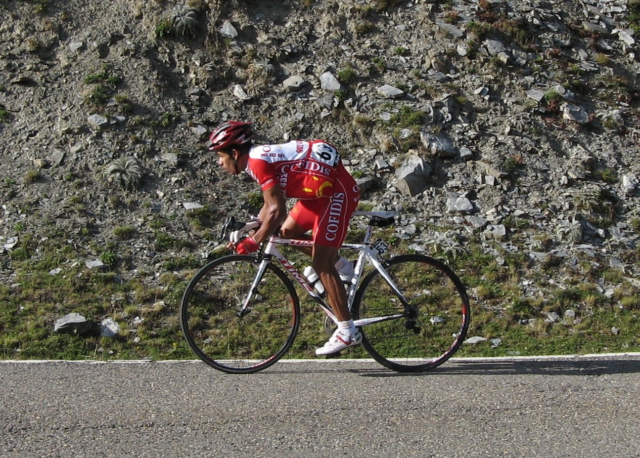 Leonardo Duque, 2008 Vuelta a España, 8th stage, Port de la Bonaigua, Spain.